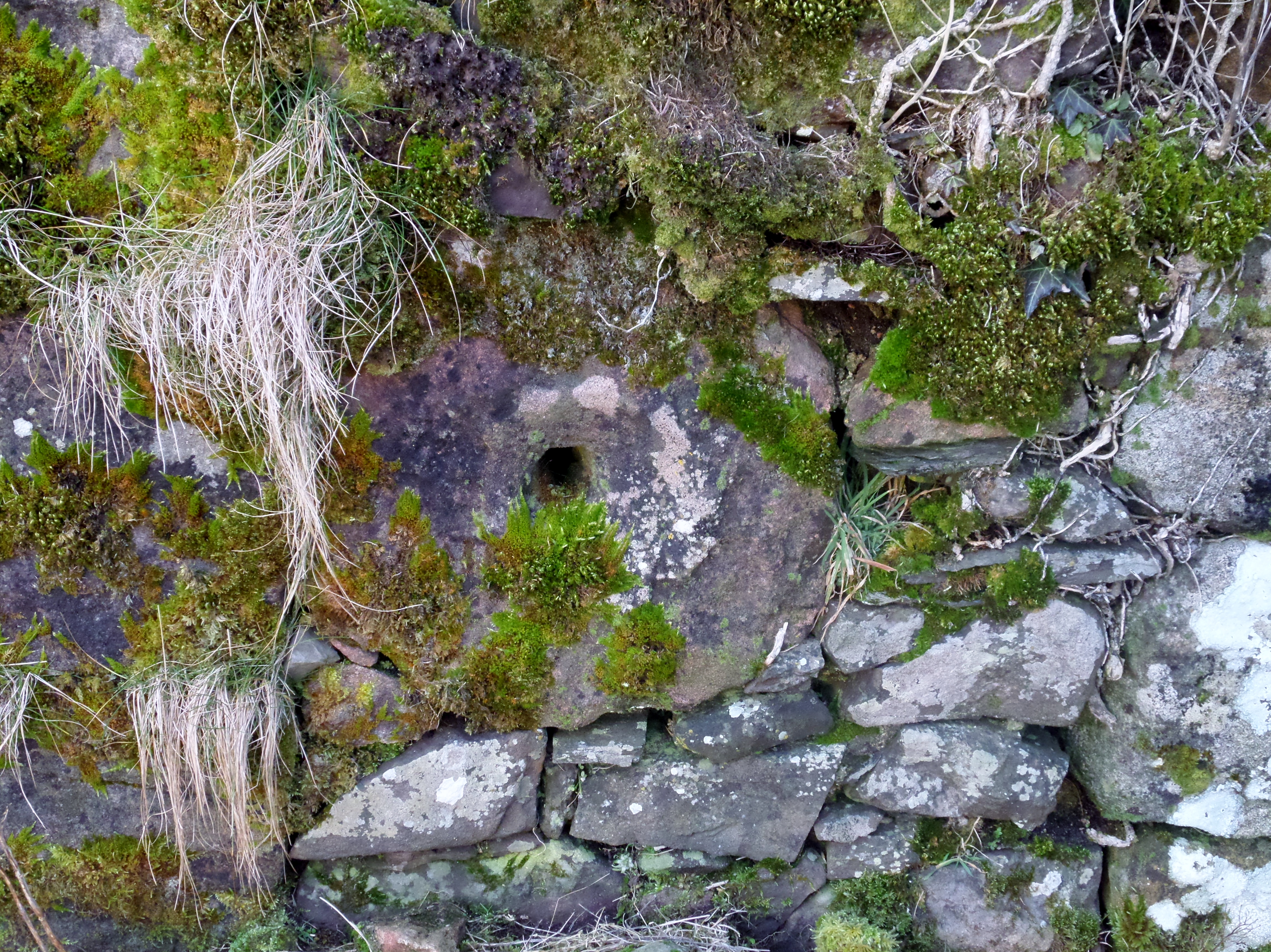 Kirkbride, Enterkinfoot, Nithsdale - old circular stone with hole near entrance